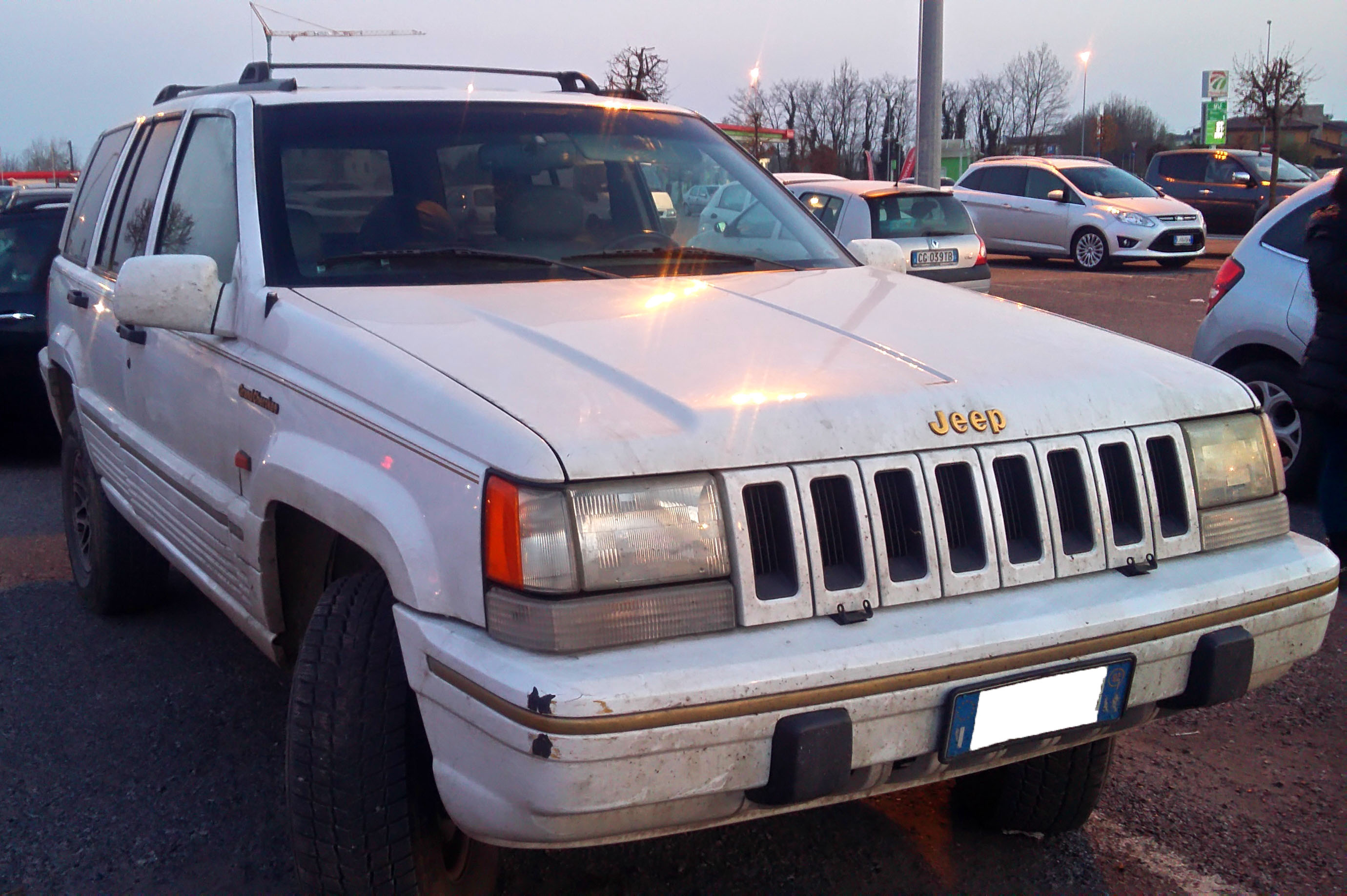 1992-1998 Jeep Grand Cherokee ZJ, front